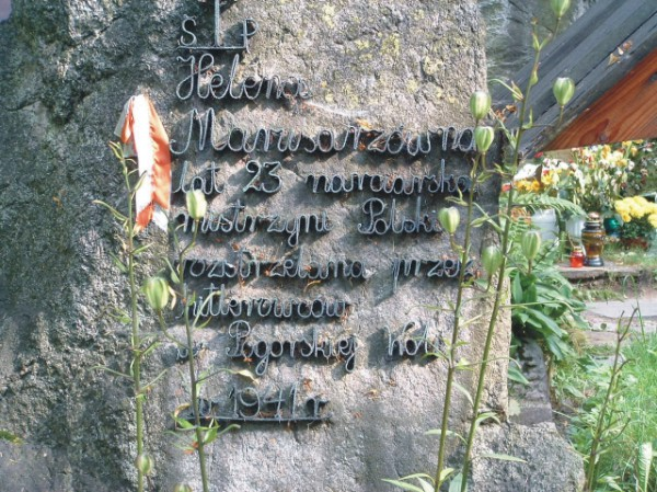 Grave of Helena Marusarzówna, photo by Jadwiga